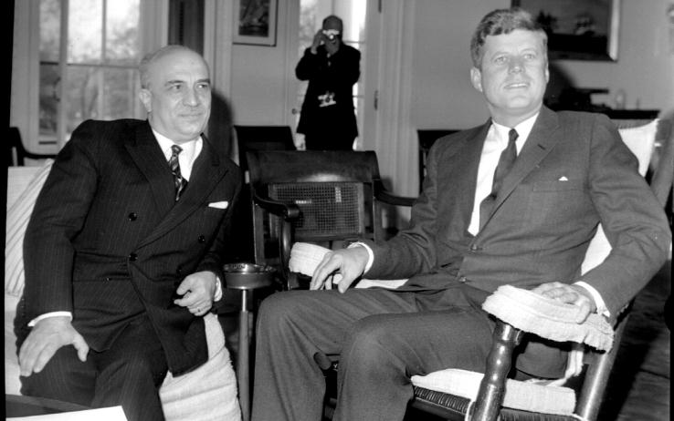 JOHN F. KENNEDY: 50 ANNI FA ELETTO PRESIDENTE / SPECIALE. Con Amintore Fanfani a Washington, alla Casa Bianca, il 16 gennaio 1963. Archivio-ANSA-CD